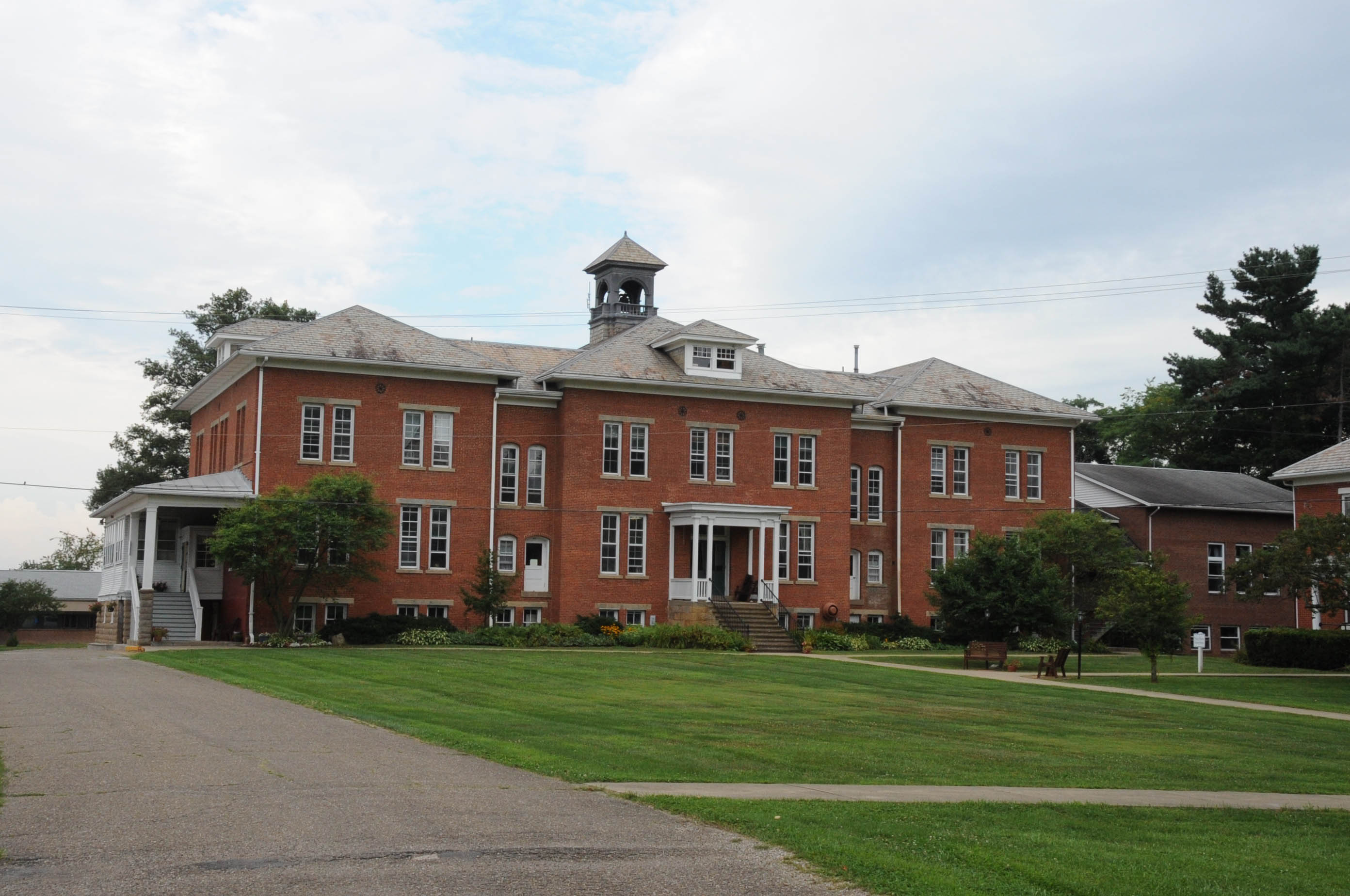 FOUNDED IN 1837 AS A SMALL COEDUCATIONAL BOARDING AND DAY SCHOOL AND IS STILL ACTIVE AS SUCH WITH STUDENTS FROM AROUND OHIO, THE COUNTRY, AND THE WORLD TO STUDY THE COLLEGE PREP CURRICULUM.